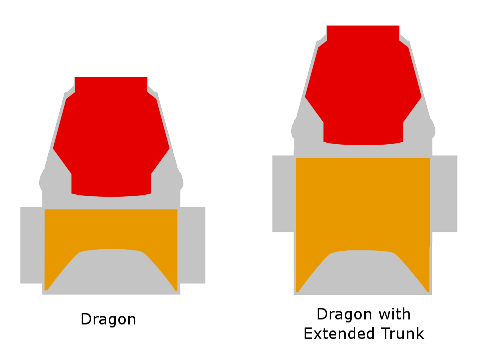 Drawing of the Dragon spacecraft showing the cargo pressurized sections (in red) and the unpressurized (in orange). Image based of drawing from this document.